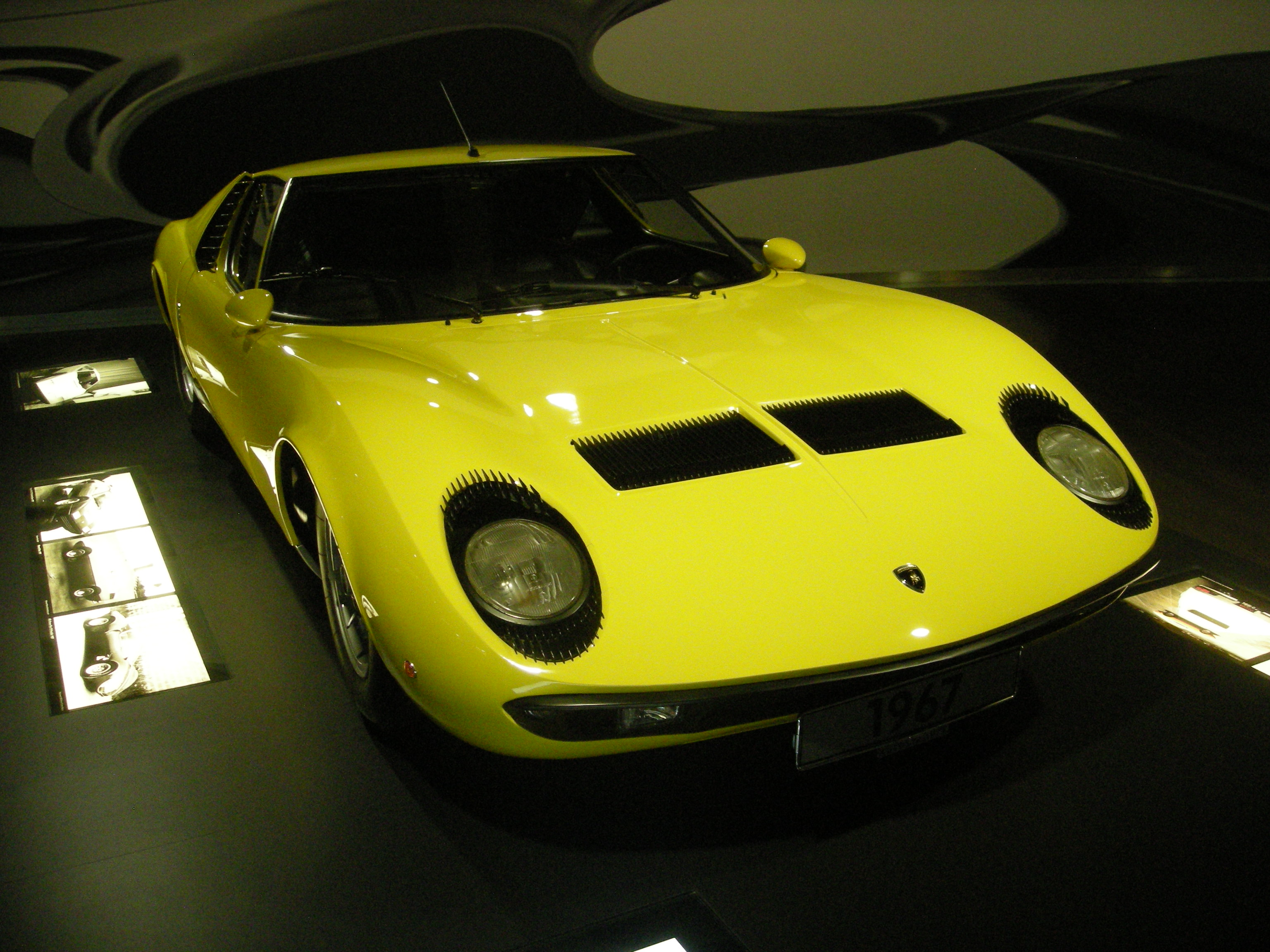 A 1967 Lamborghini Miura inside the ZeitHaus at Autostadt in Wolfsburg, Niedersachsen (Germany).